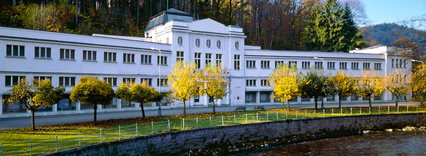 Art Gallery, Karlovy Vary